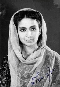 A 1948 photograph of noted Punjabi writer and poetess, Amrita Pritam (1919 – 2005).